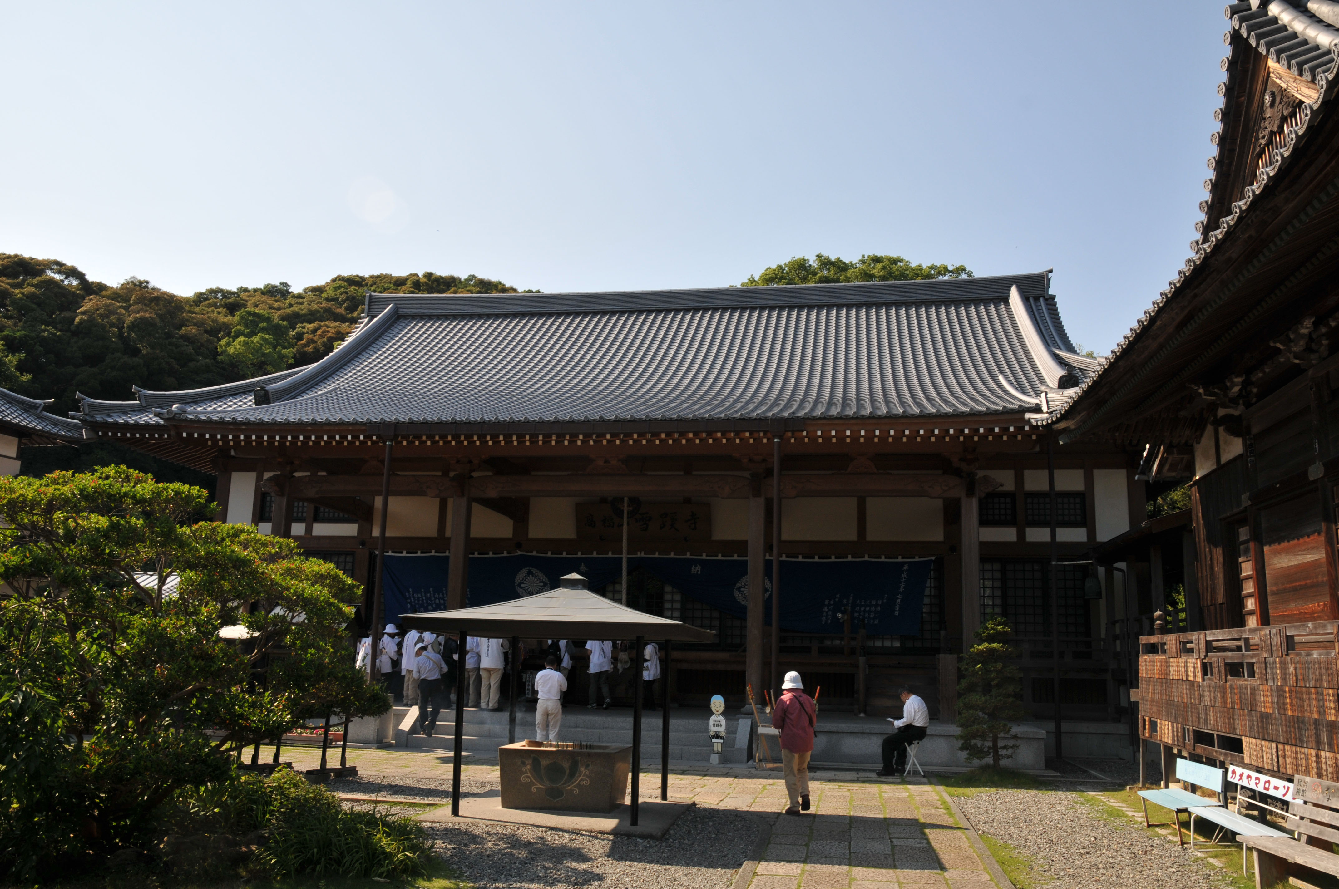 Main temple, Sekkei-ji